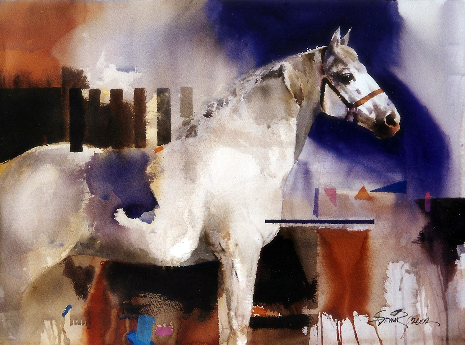 samir mondal watercolor painting - monsoon